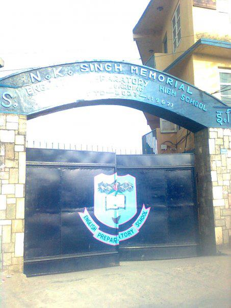 The picture shows the entrance gate to the school.